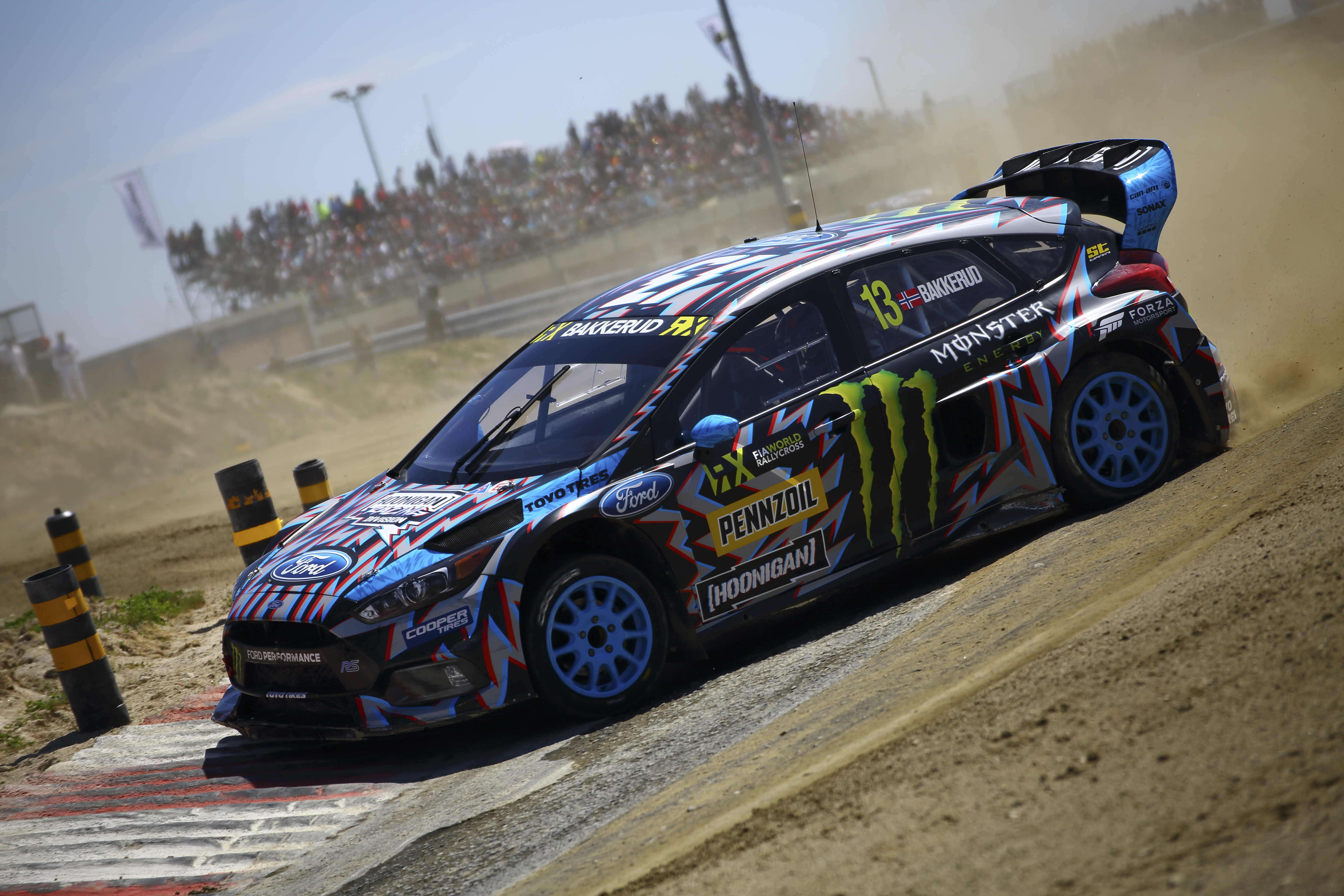 Andreas Bakkerud, FIA World RX of Portugal 2017 in Montalegre